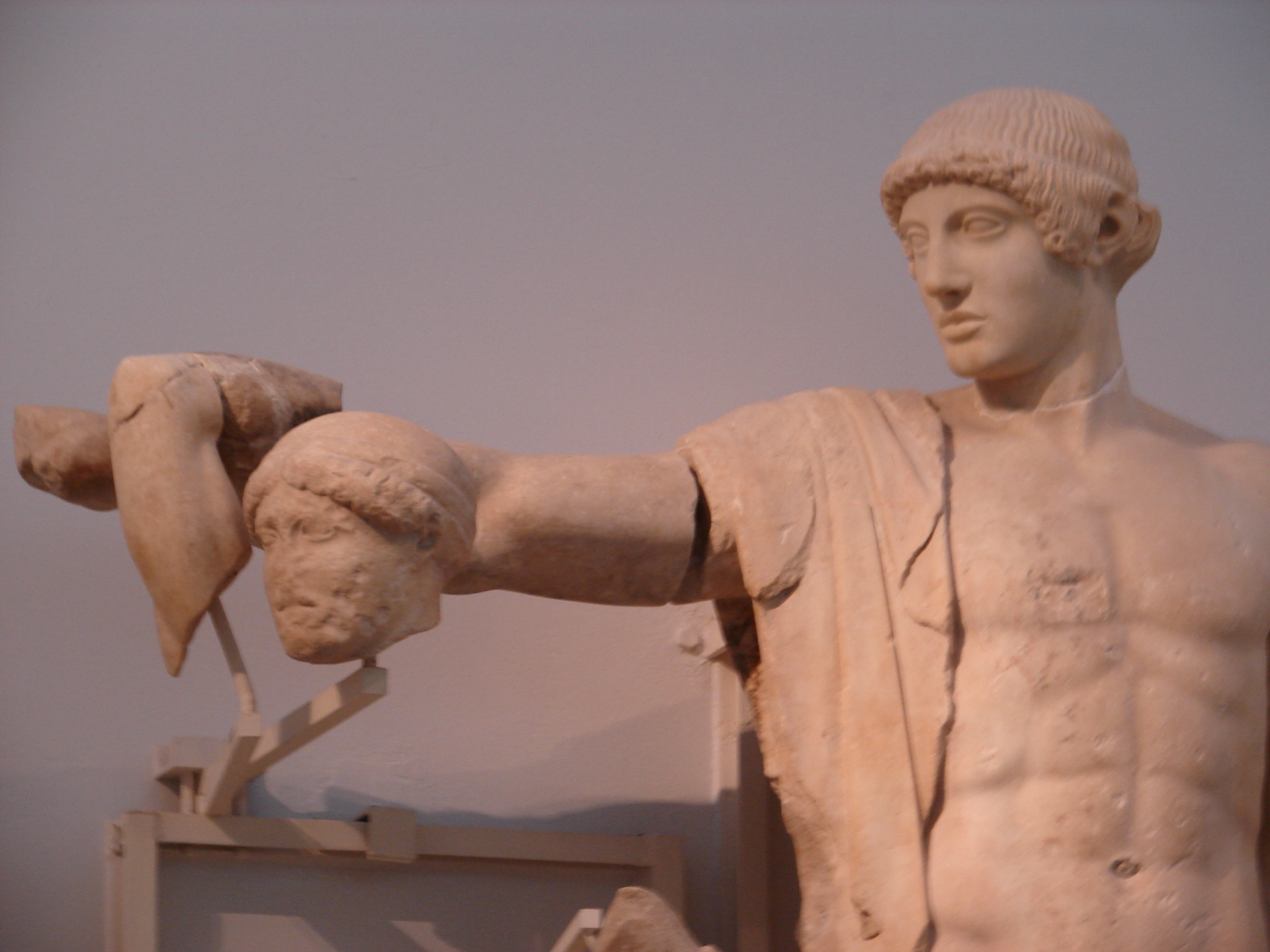 Sculptures of the west pediment of the Temple of Zeus at Olympia: Apollo and fragments of Pirithous. Olympia Archaeological Museum.